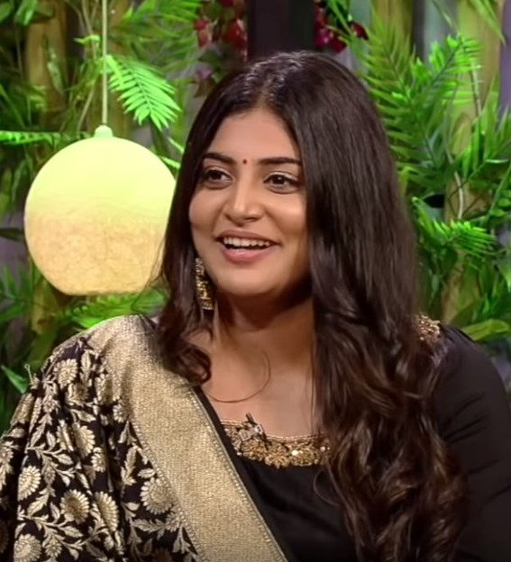 Interview with actress Manjima Mohan